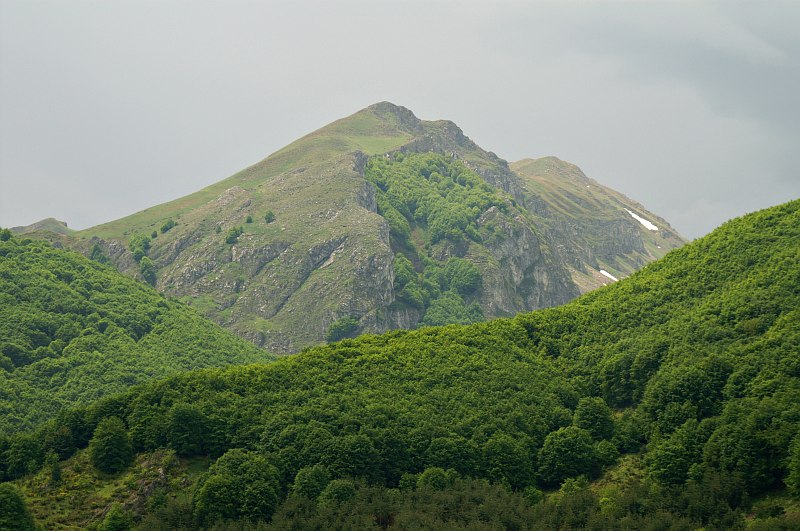 Jablanica Mountain, on the border between Albania and the Republic of Macedonia, seen from the village of Gorna Belica, to the north of Struga on the Macedonian side.